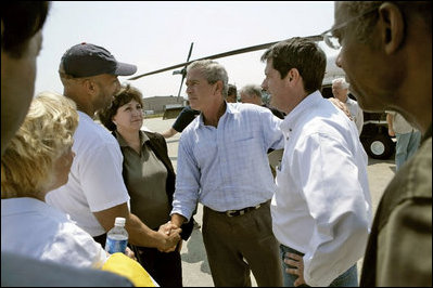 New Orleans Mayor Ray Nagin, Louisiana Governor Kathleen Blanco, President George W. Bush and Louisiana Senator David Vitter meet on the tarmac beside Marine One, September 2 2005.